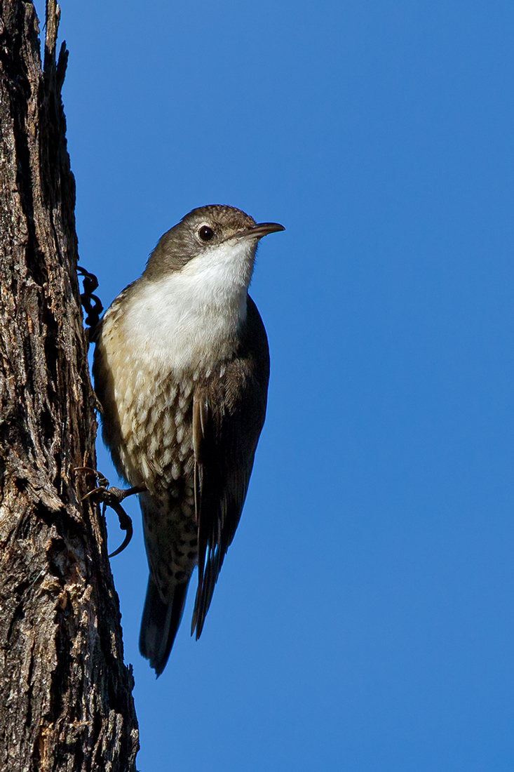 A White-throated Treecreeper in Victoria, Australia.